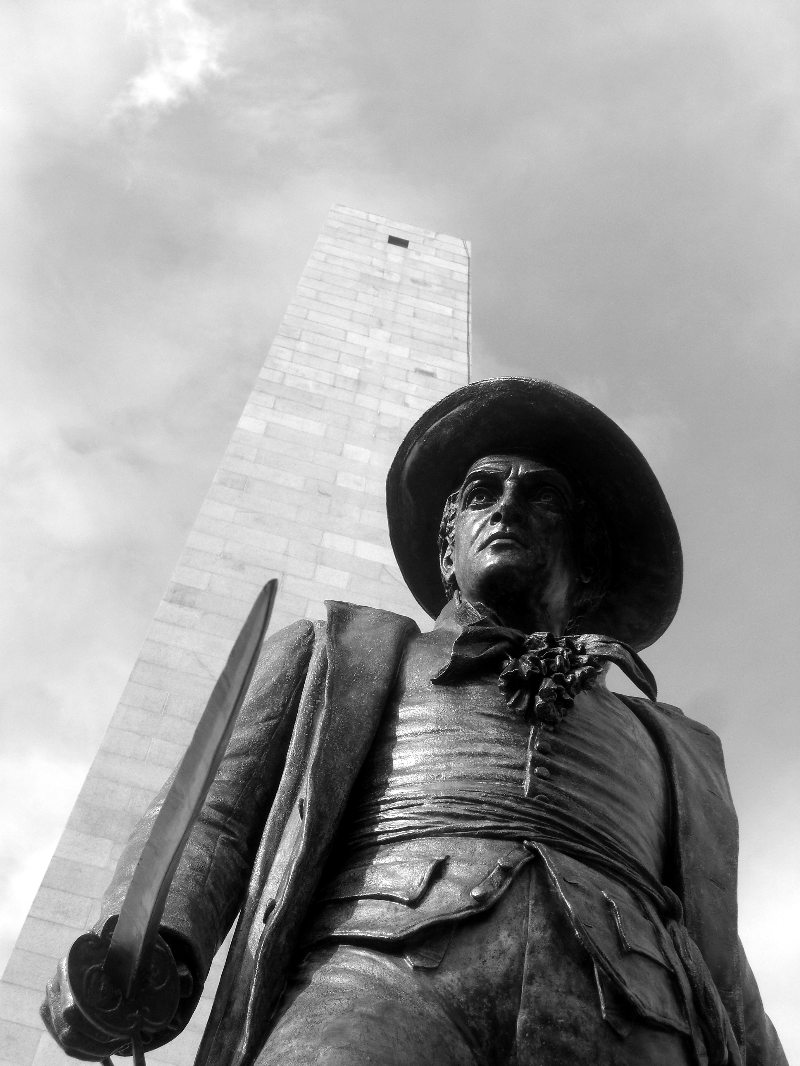 Colonel William Prescott, (sculpture). The Bunker Hill Monument